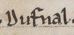 An excerpt from folio 9r of British Library Cotton MS Faustina B IX (the Chronicle of Melrose). The excerpt refers to Dyfnwal ab Owain, King of the Cumbrians (died 975).